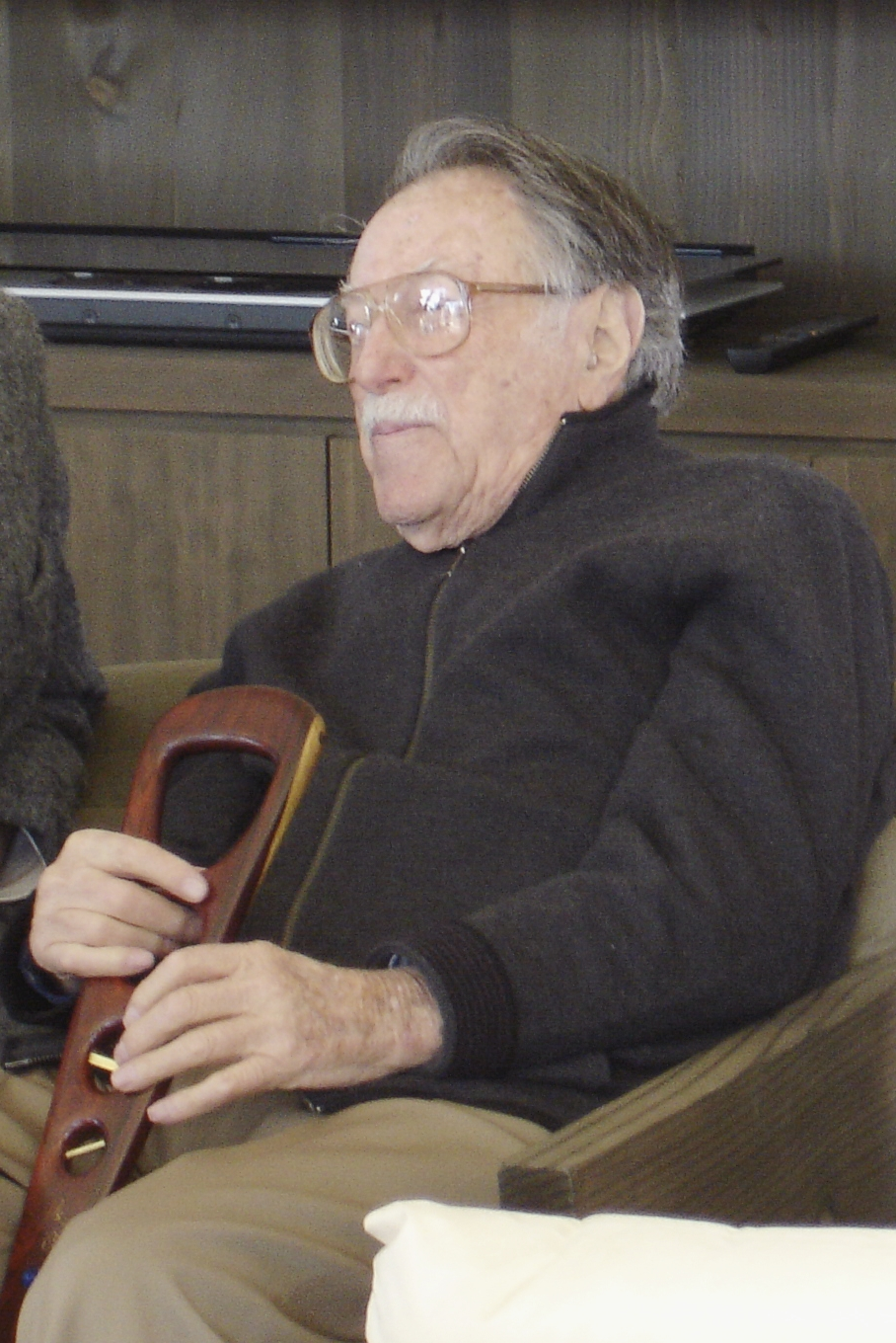 The Croping of primary photo was made.